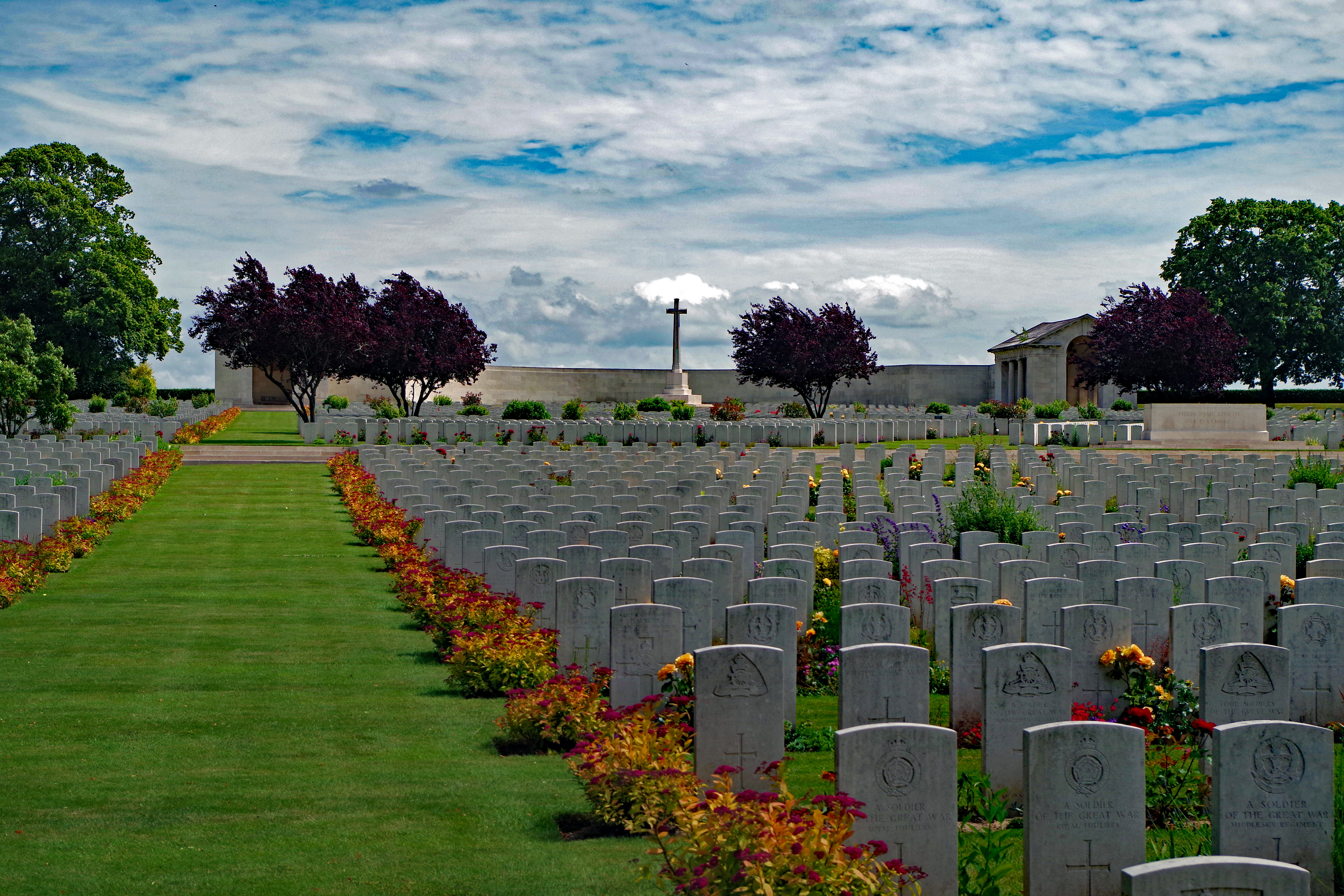 Serre Road Cemetary No. 2 - Serre-lès-Puisieux (Puisieux), Somme, France